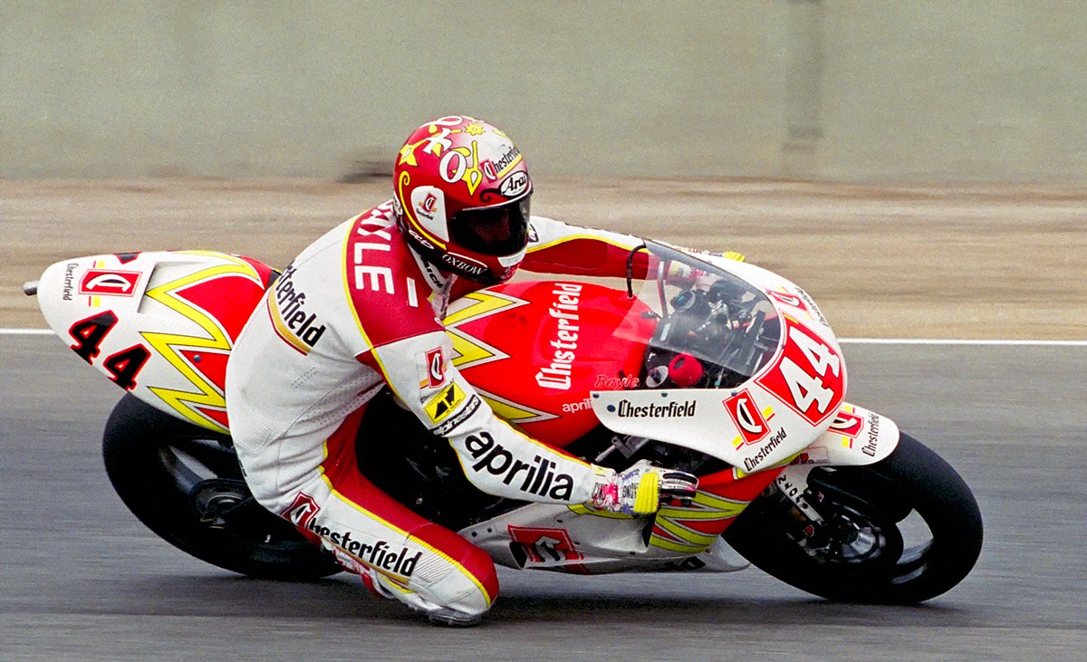 Jean- Michel Bayle 250cc at the 1993 USGP Laguna Seca